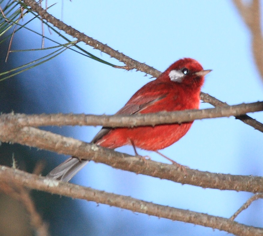 Photographed at La Cumbra, Mexico, south of Oaxaca. Myioborus ruber ruber = Ergaticus ruber ruber